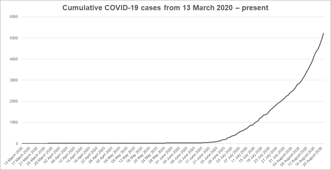 A graph showing the cumulative COVID-19 cases in Namibia from 13 March 2020-22 August 2020